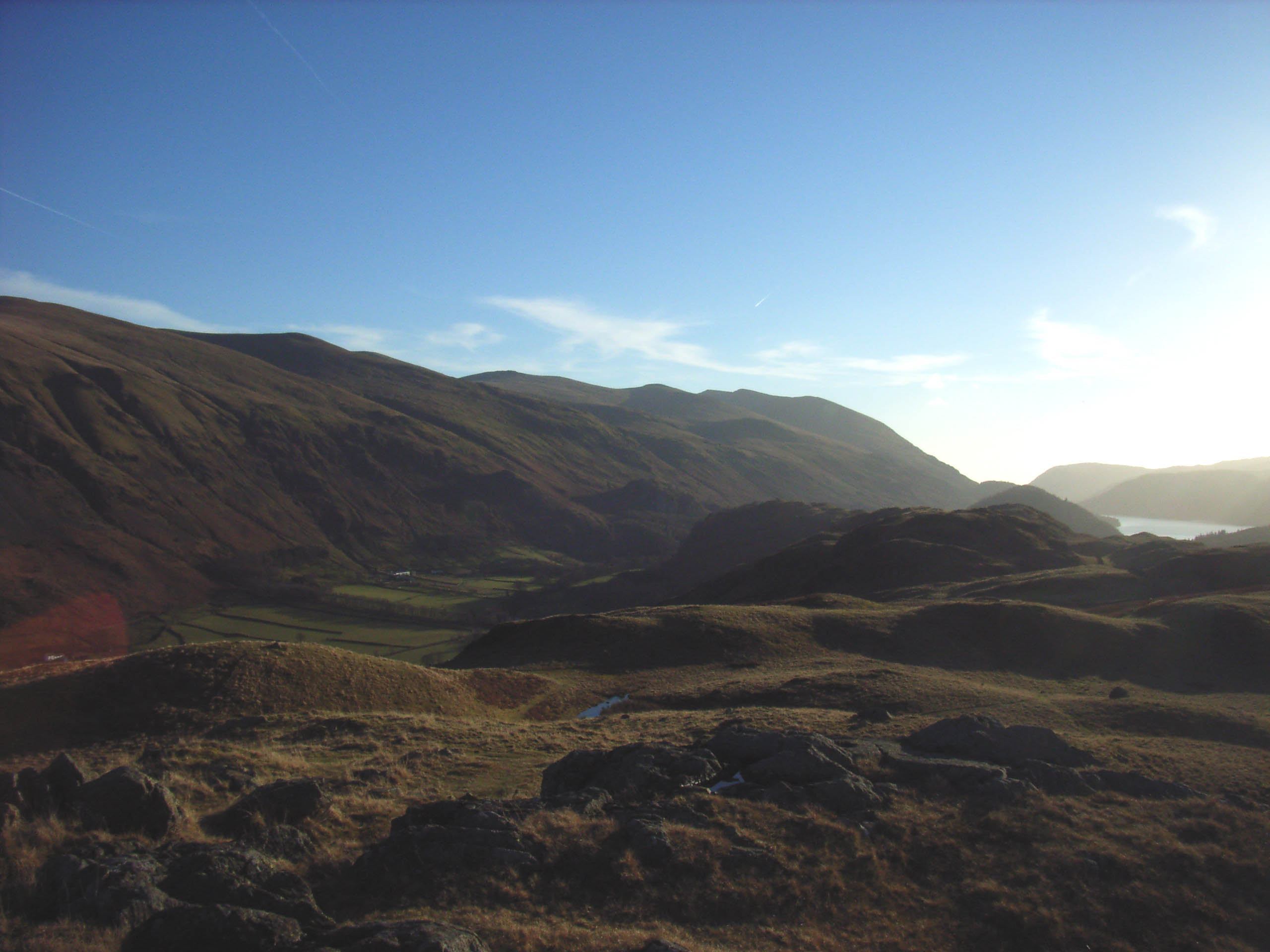 View of the Helvellyn range, southeast from the summit of High Rigg.